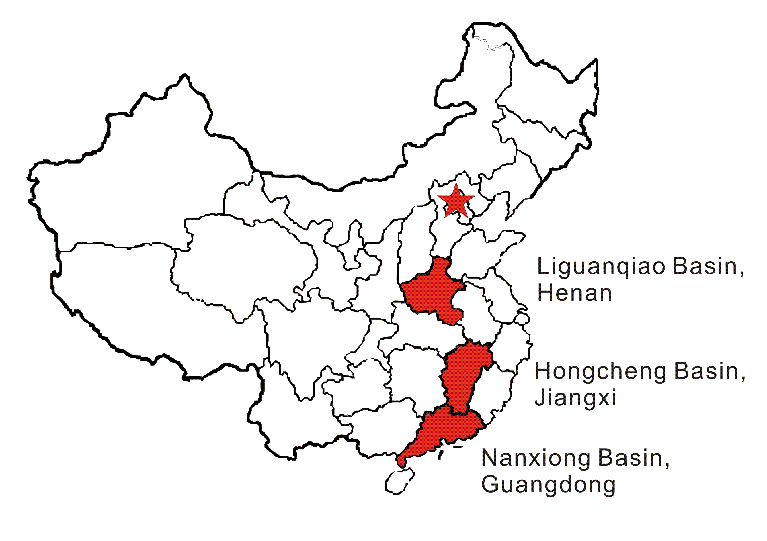 Geographical map of China. The capital city, Beijing, is indicated by the red star. Red shaded provinces indicate the three different localities where the egg specimens were collected: the Liguanqiao Basin in Henan, the Hongcheng Basin in Jiangxi, and the Nanxiong Basin in Guangdong (see Supplemental Information).